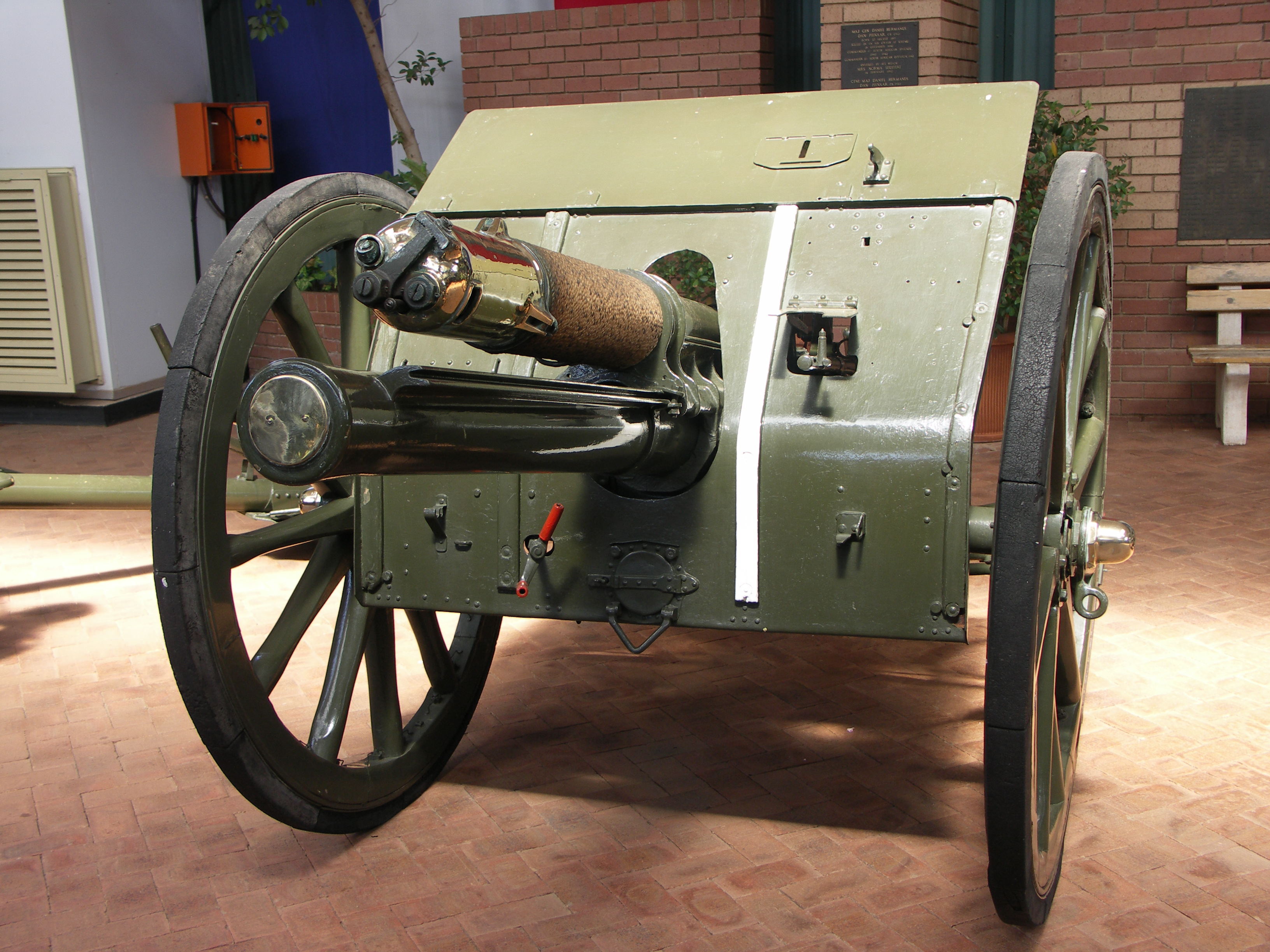 Ordnance QF 18 pounder at the South African National Museum of Military History